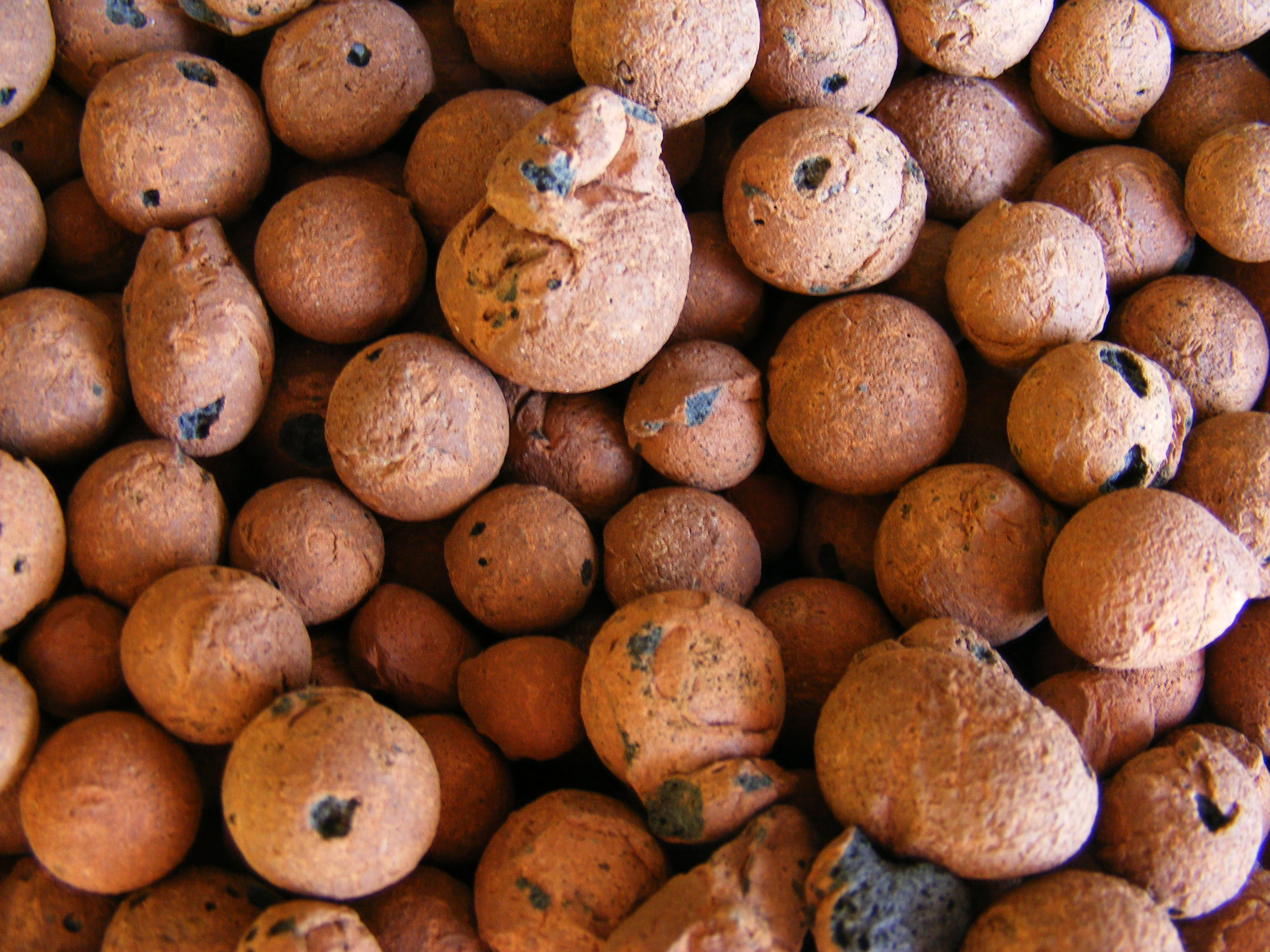 Light Expanded Clay Aggregate, commonly used in blocks, slabs, geotechnical fillings, lightweight concrete, water treatment, hydroponics and hydroculture.